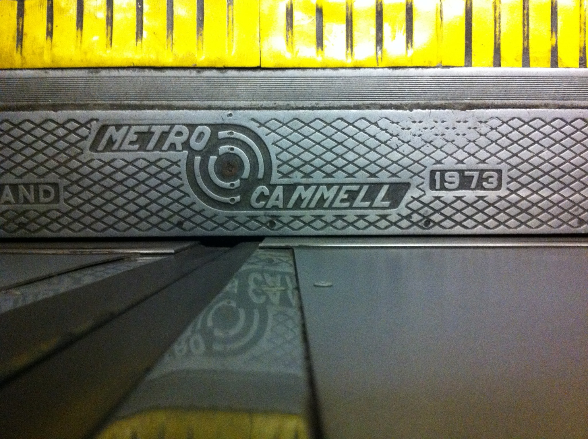 Door tread plate of a London Underground train showing that it was manufactured by Metro Cammell during 1973 (n.b. this is not necessarily 1973 Stock, since some of the 1972 Stock was built in 1973)